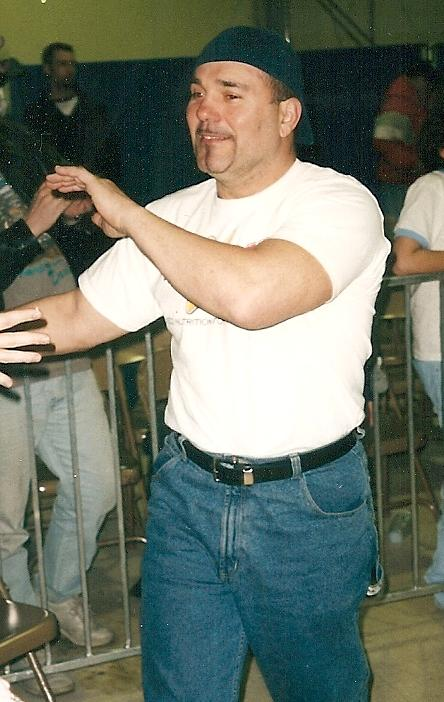 Rocco Rock greeting fans after a local independent show on March 1, 2002 at Sokol Hall in Omaha, Nebraska, USA.